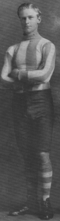 Syd Barker, Sr.- Picture of Syd Barker during his playing days with North Melbourne in the VFA